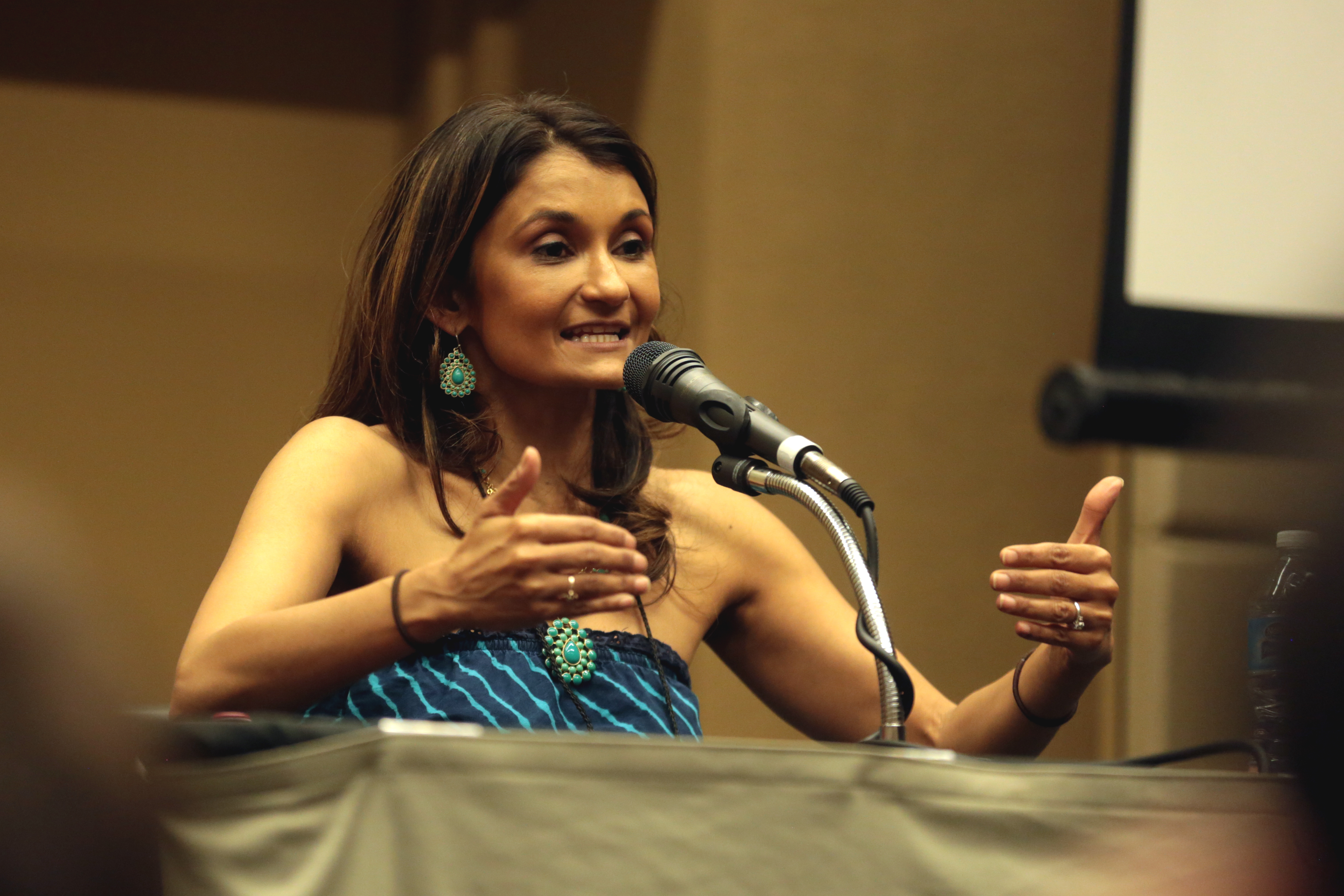 Anjali Bhimani speaking with attendees at the 2017 Game On Expo, for "The Voices of Overwatch, Fallout 4, World of Warcraft", at the Phoenix Convention Center in Phoenix, Arizona.